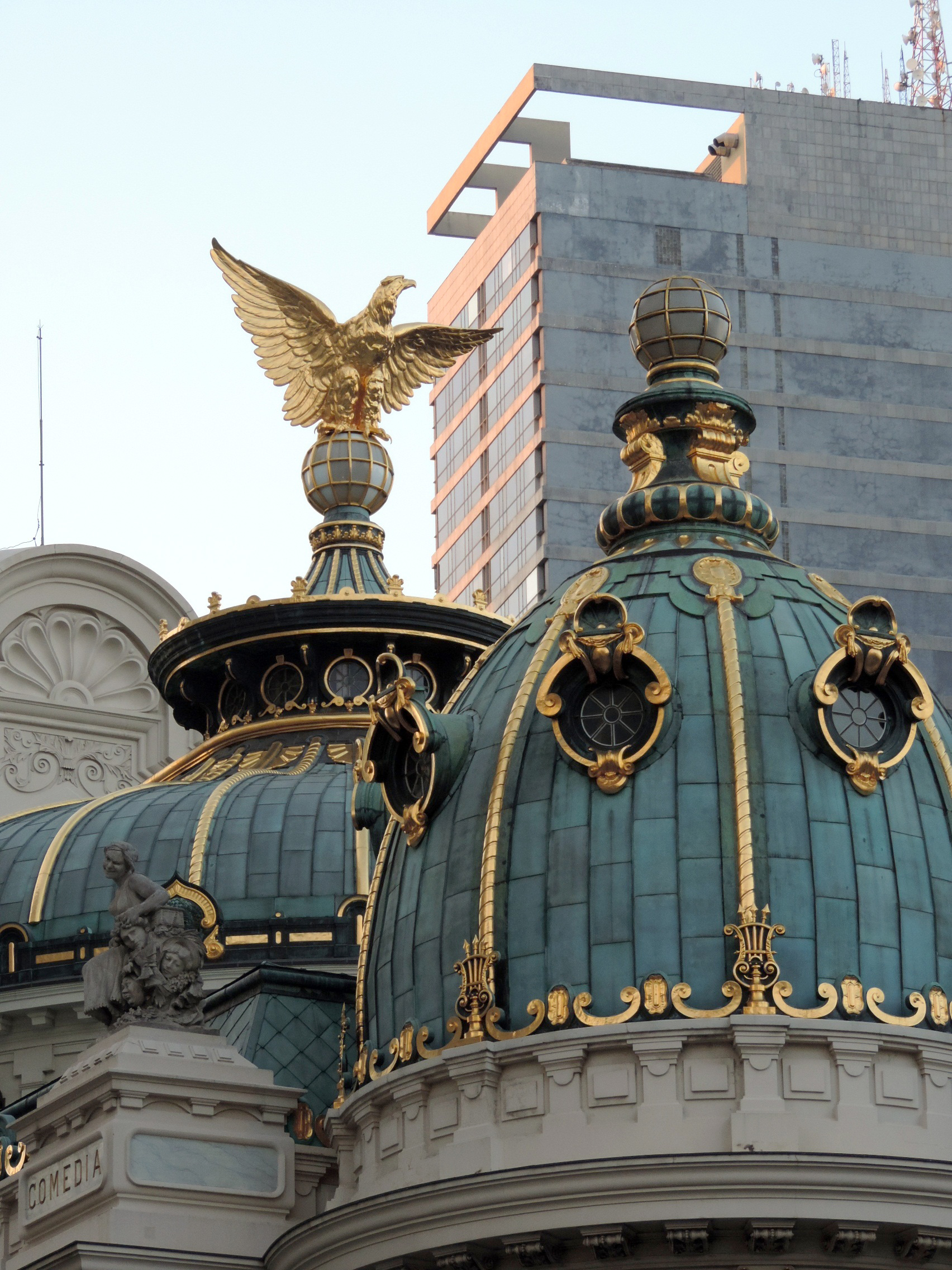 CD 860